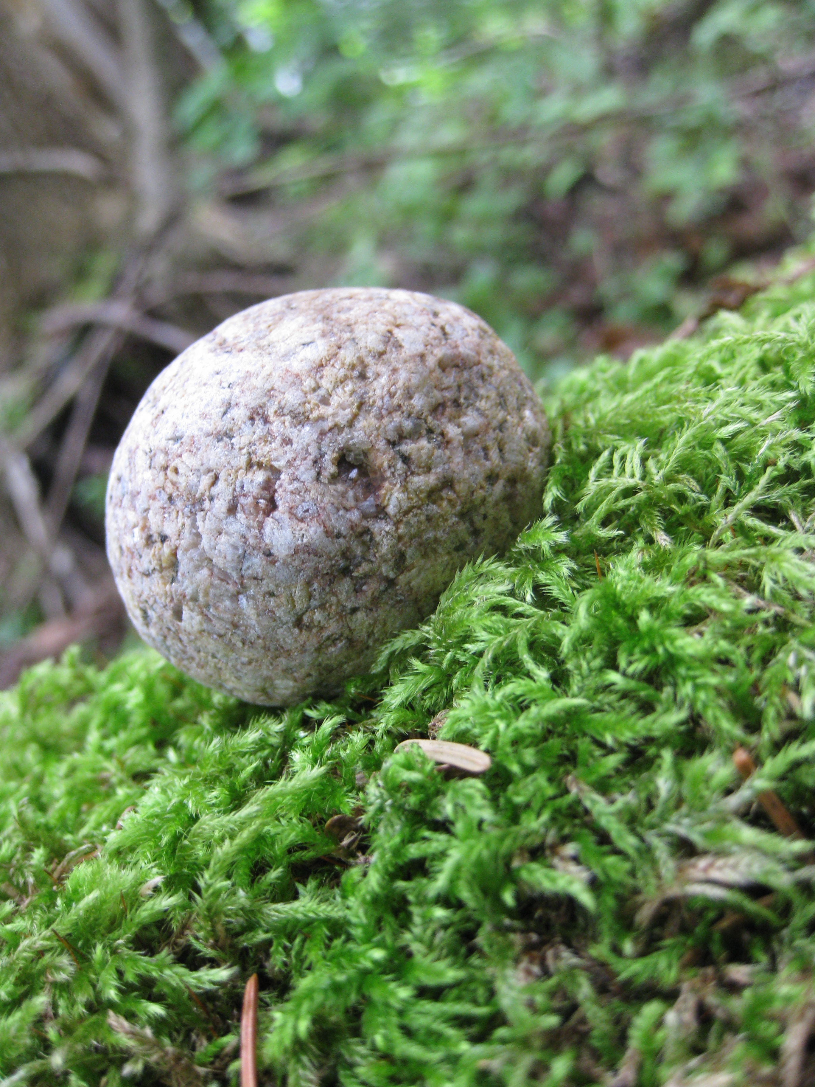 A spherical stone on green moss. Illustrates the English proverb “A rolling stone gathers no moss.”Original description: Rotate your camera today a bit and make a slightly off-angle photograph. Use the angle to emphasize your subject.